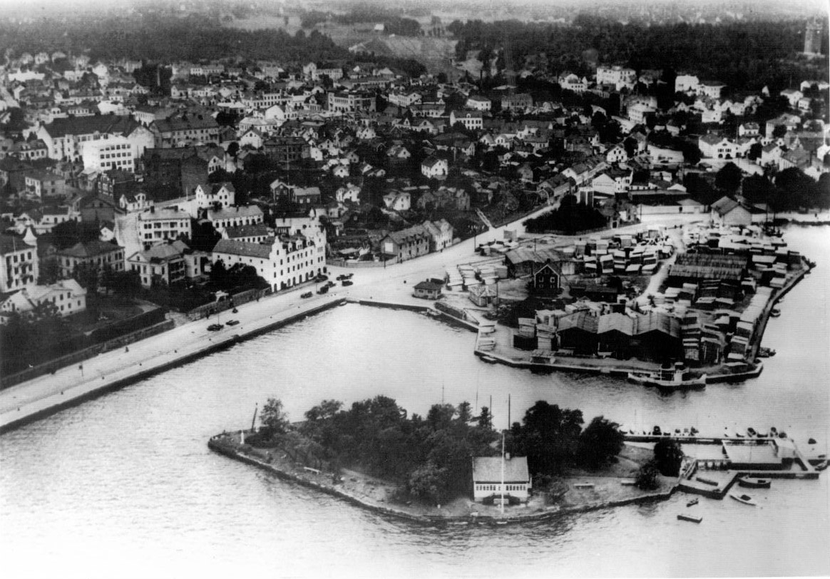 Oskarshamn Sweden.